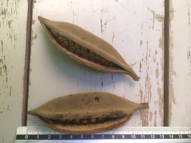 Brachychiton acerifolius seeds